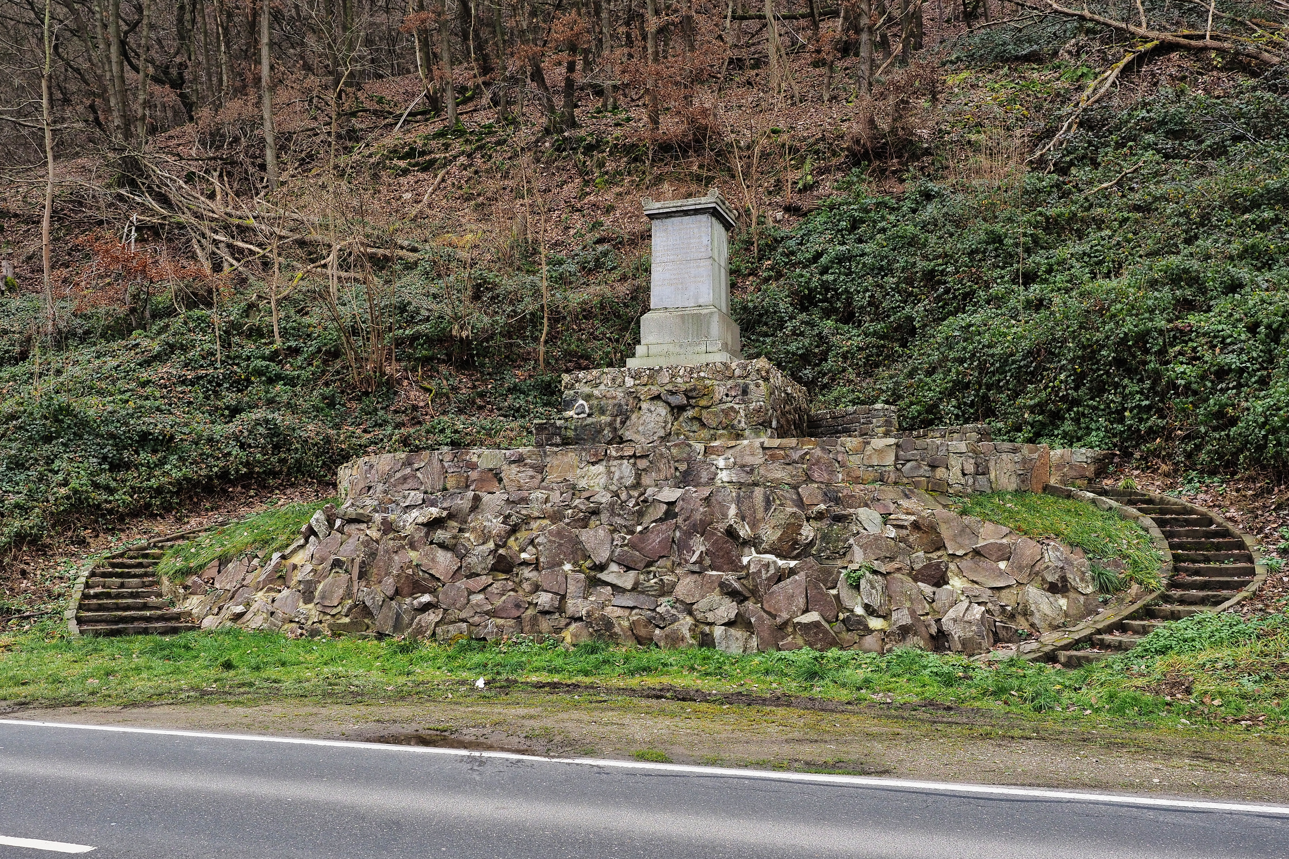 Memorial of the opening of the Binger Loch